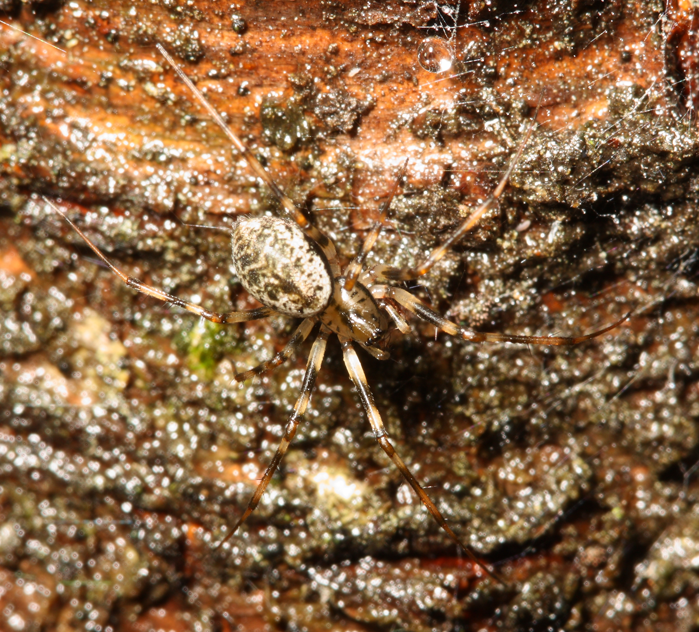 Live adult sheetweb spider, Drapetisca alteranda, photographed near Marienville, Pennsylvania. Size: 5mm